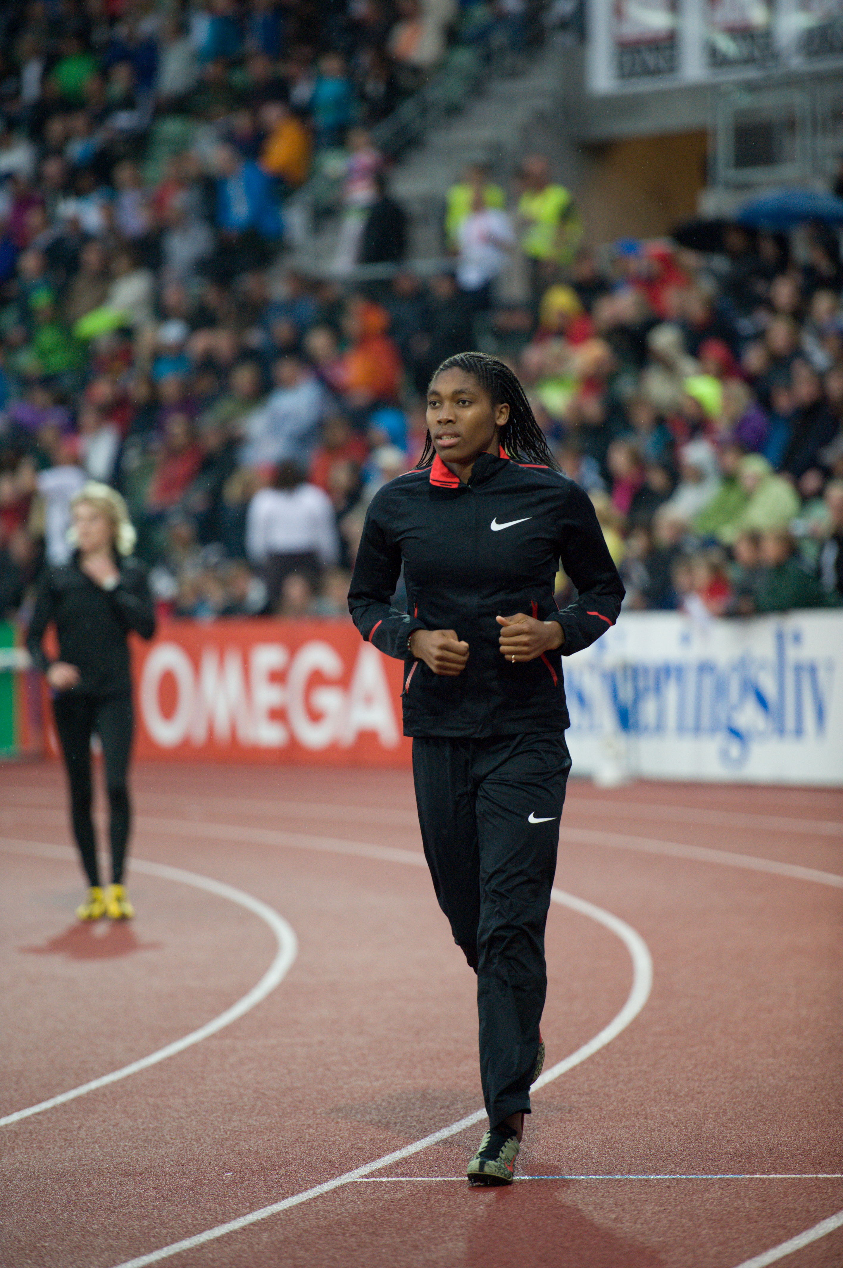 Caster Semenya at Diamond League, Bislett Games 2011